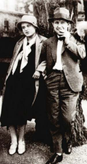 The Czech artist Toyen and her friend the surrealist painter Karel Teige.